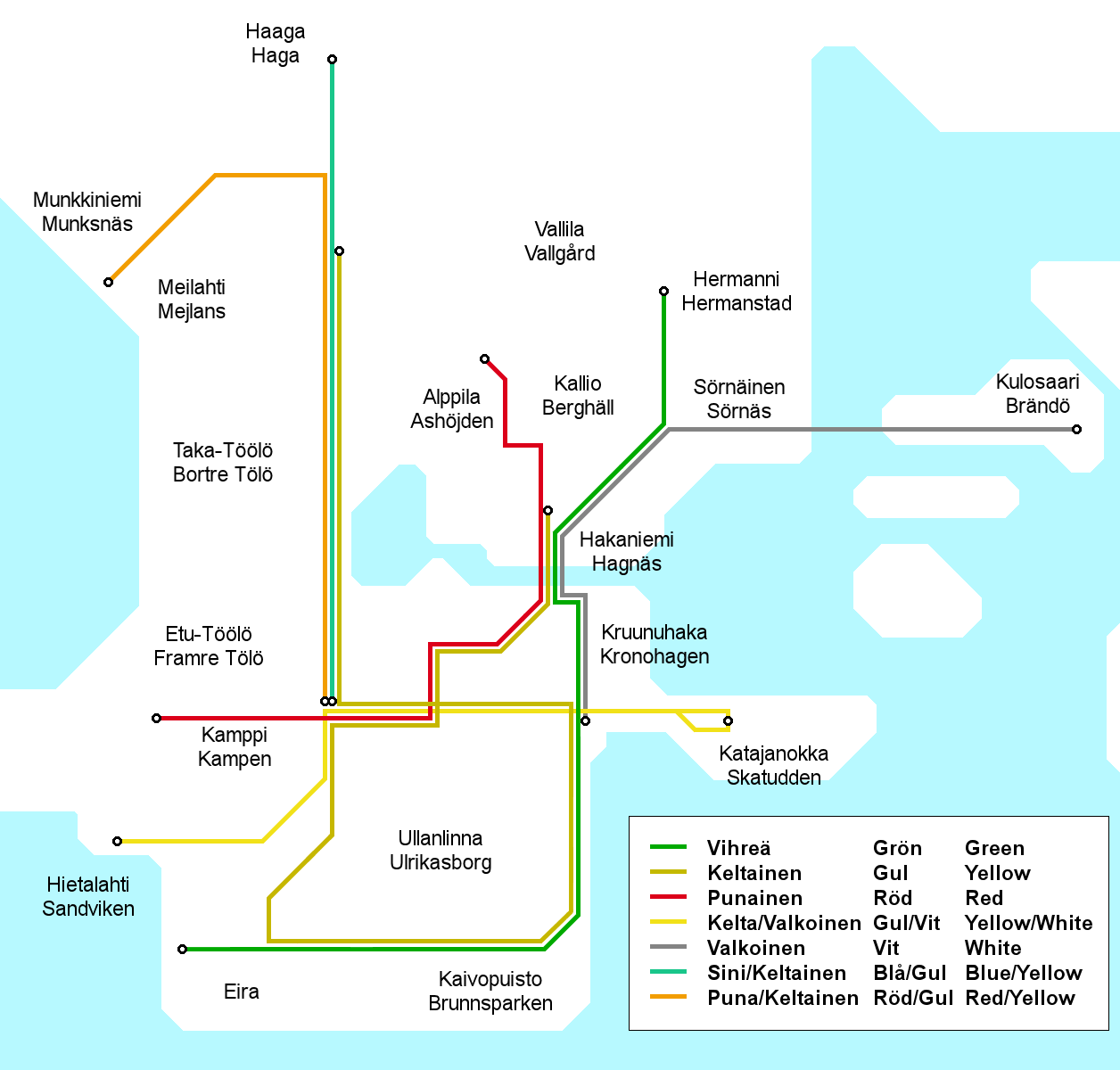 Map of the Helsinki tram network as it appeared in 1920-1922. At this time lines were identified solely by their colour combinations and had no numbers or letters as identifiers. The colours used on this map do not wholly match the original colours, in order to maintain the colours as identifiers of the same lines for all the historical Helsinki tram maps.